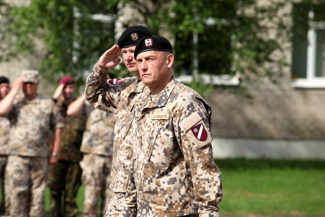 Latvian Armed Forces Joint Staff Commander, Brig. Gen. Juris Zeibarts, escorted by Latvian Army colonel, Martins Liberts, Adazi site commander, reviews the troops during the Saber Strike 2013 opening ceremony at Adazi Training Area, Latvia. The ceremony was one of several held at locations across the Baltic States as the exercise began.Saber Strike 2013 is a U.S. Army Europe-led, multinational, tactical field training and command post exercise occurring in Lithuania, Latvia and Estonia June 3-14 that involves more than 2,000 personnel from 14 different countries. The exercise trains participants on command and control as well as interoperability with regional partners and is designed to improve joint, multinational capability in a variety of missions and to prepare participants to support multinational contingency operations worldwide. Photo: Gatis Diezins, Recruitment and Youth Guard Centre (RYC)